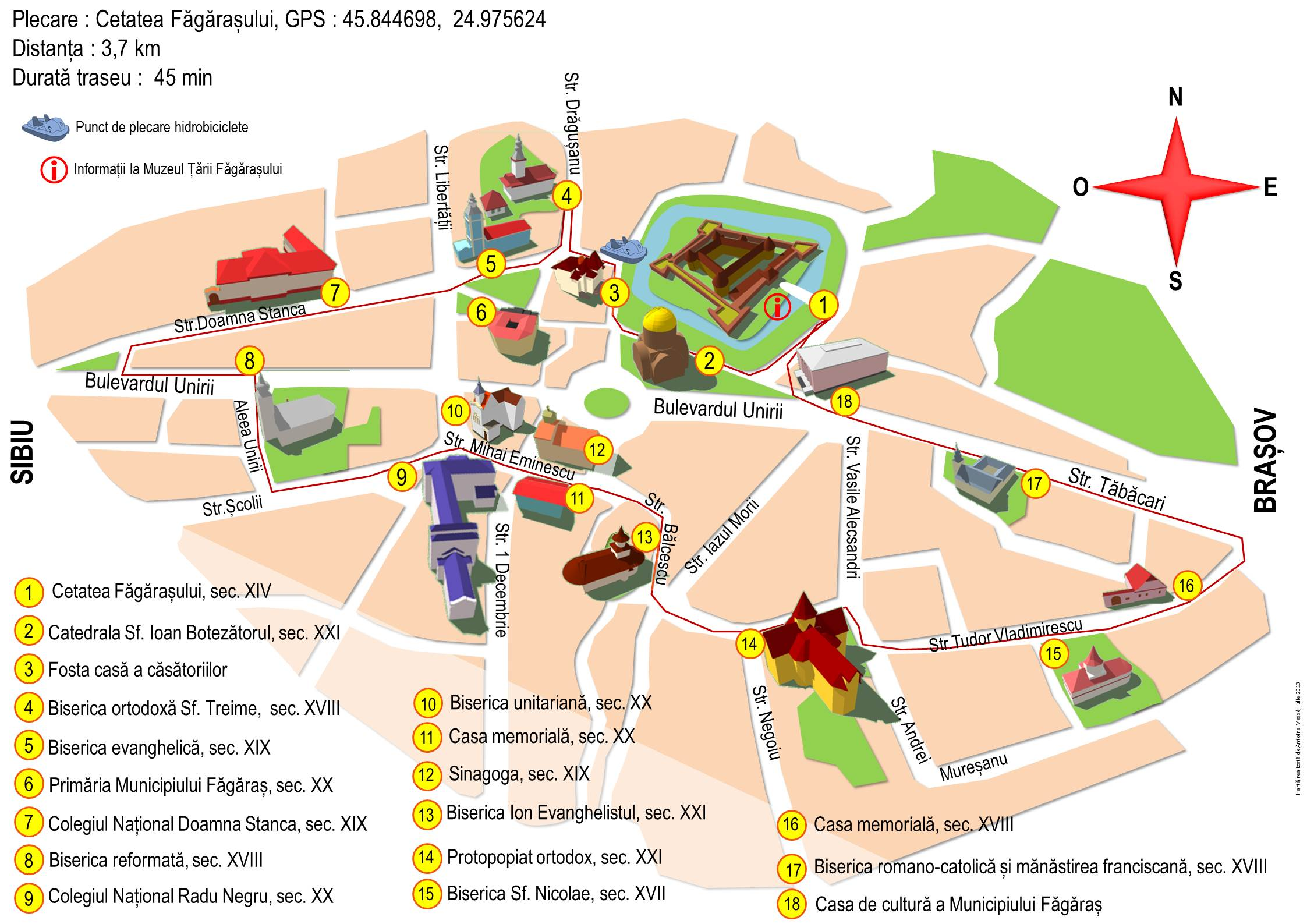 Touristic map of Fagaras in Romania, Transylvanie, Brasov